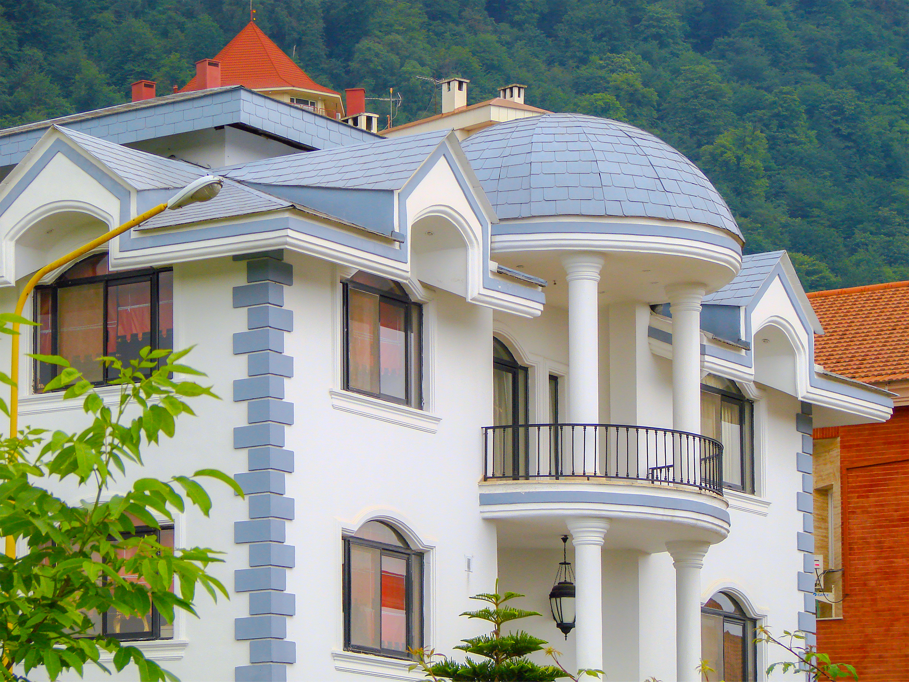 Shahrak-e Namak Abrud is a touristic village and has an aerial tramway which starts at the sea level near the shores of the Caspian Sea and ends on the top of the Alborz heights crossing dense forest area of northern Iran. There are numerous villa cities around it which form a vacation region for the people of Tehran.